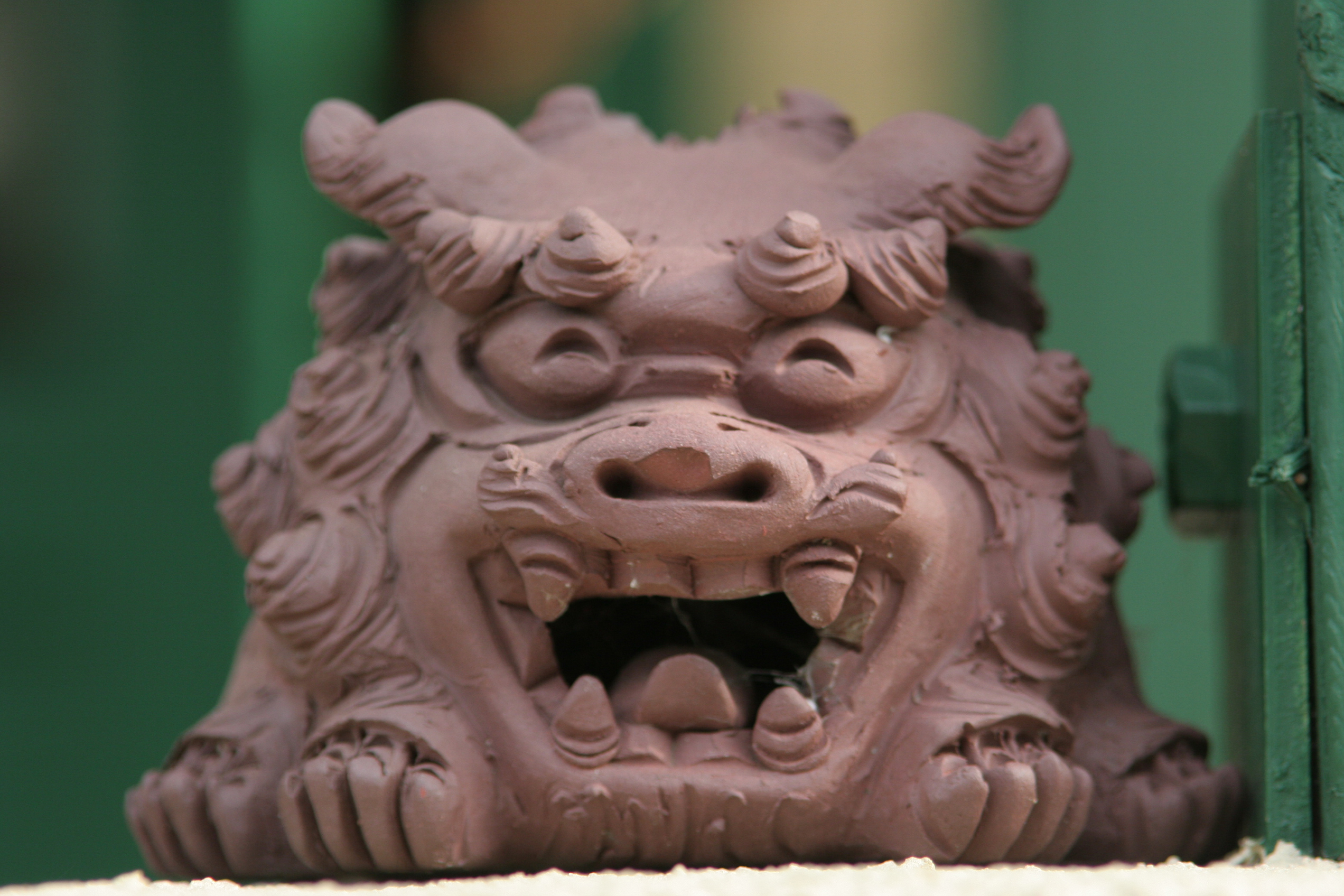 Shisa is a kind of stone guardian dogs (at the gate of a Shinto shrin) - This one is a variant of stone gurdian dogs originated in Okinawa area.